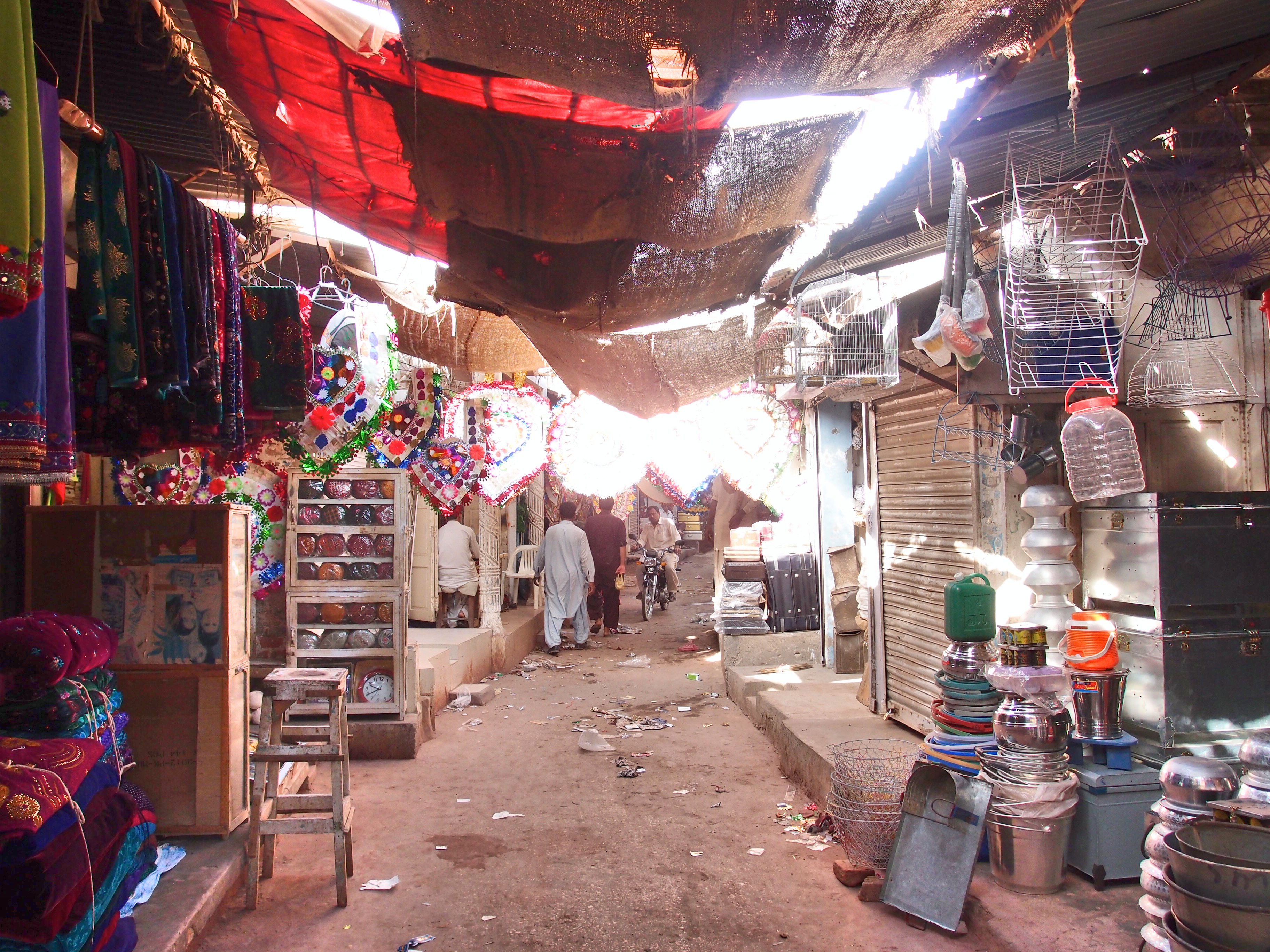 Umerkot shahi bazaar